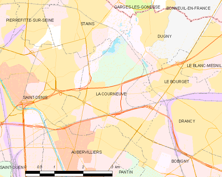 Map of French municipality La Courneuve